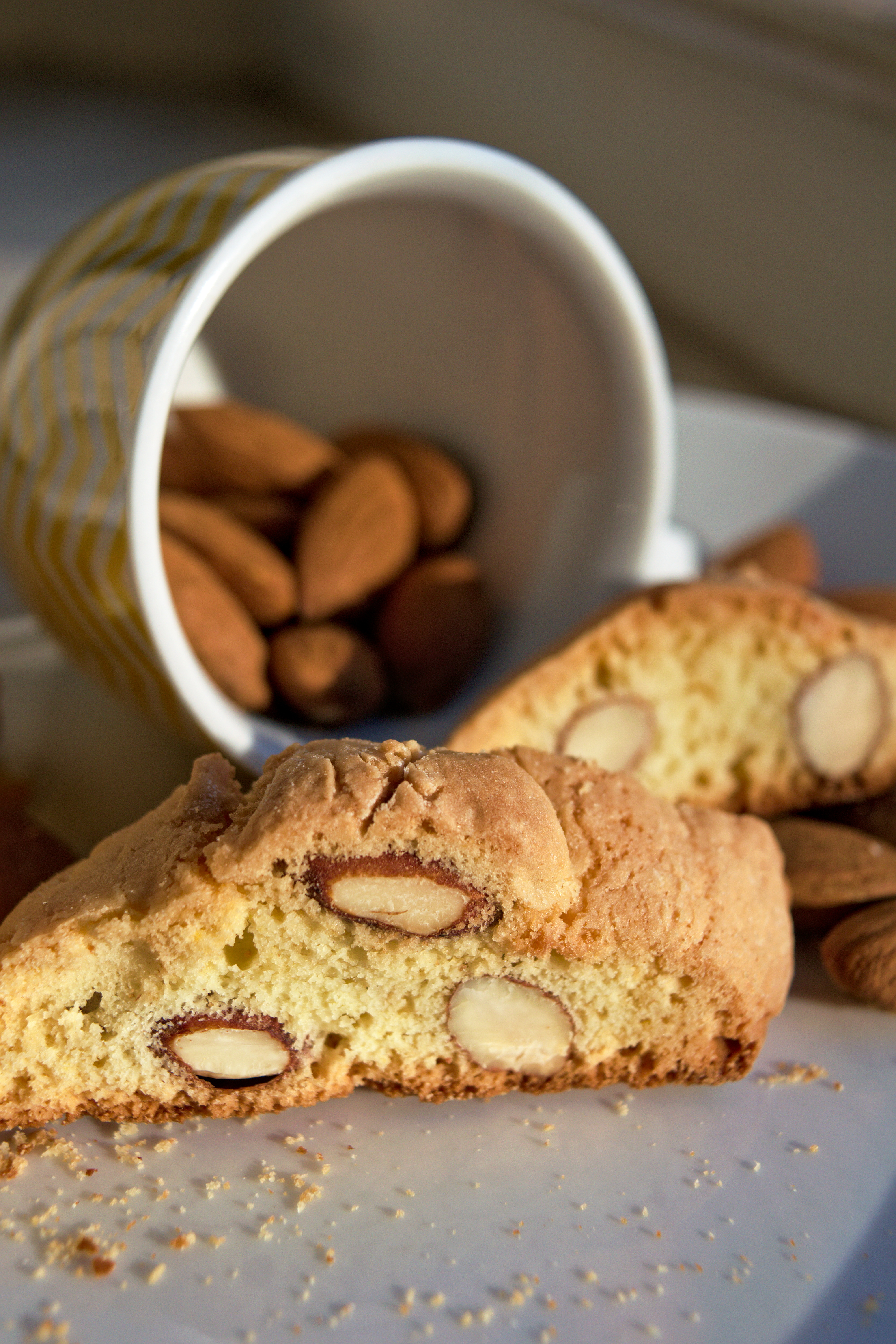 Cantuccini, the Tuscan name for what the rest of the world calls 'Biscotti', is traditionally made with almonds. It can be served with Vin Santo as a dessert or dipped in milk or coffee for breakfast.